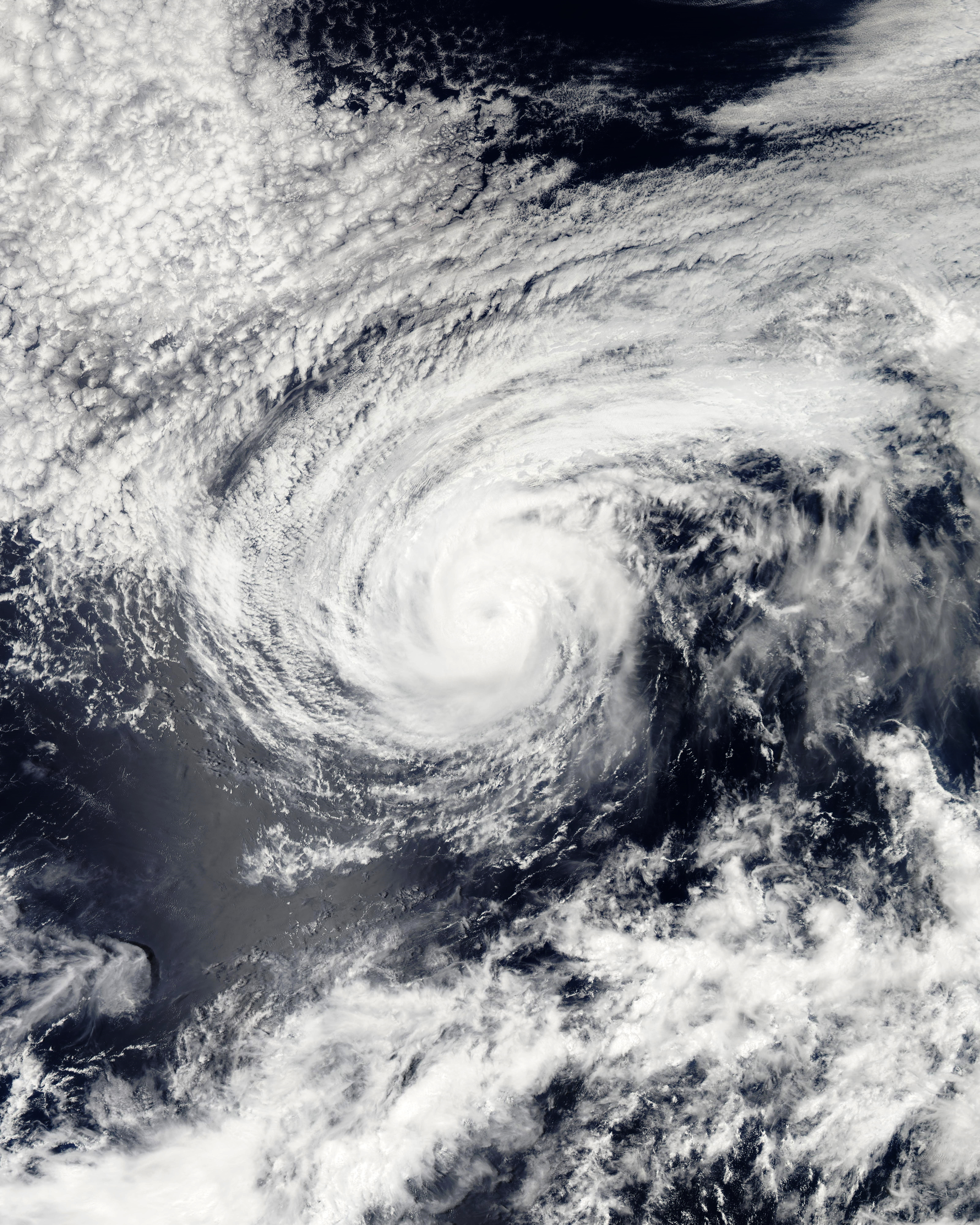 This image shows Hurricane Fernanda in the eastern Pacific Ocean at 2145 UTC on August 12, 2005. The storm's maximum sustained winds were about 85 mph (140 km/h) and the minimum central pressure was about 979 mb.